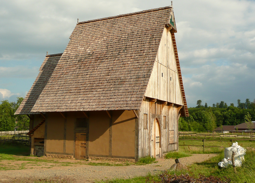 Reconstructed medieval house at the archaeological excavation site in Nienover